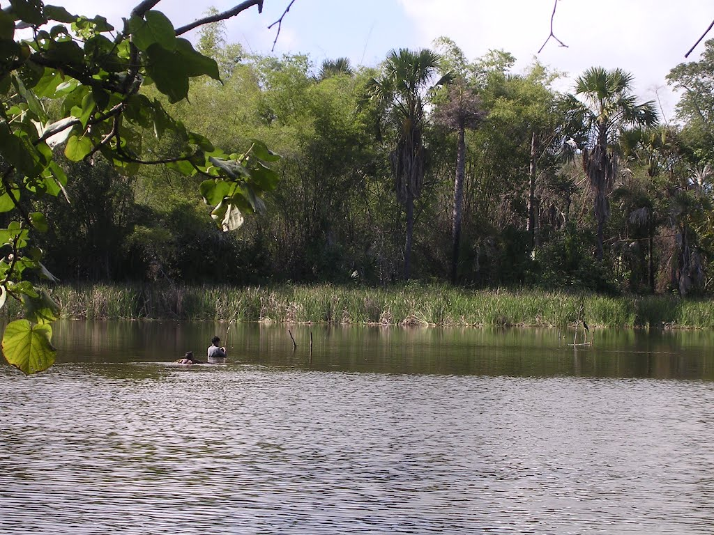 Fisherman chancing their luck in Estuarine Crocodile riddled Lake Wetanas (Welenas), suco Fatukahi, Manufahi